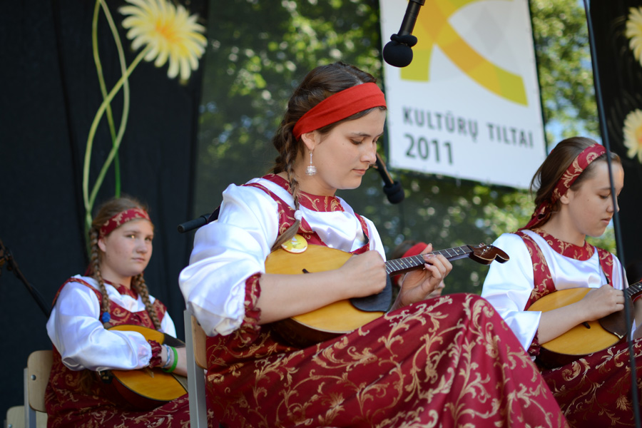 Festival of Lithuania's nations "Bridges of Culture 2011".Russian ensembly "Treščiotki".